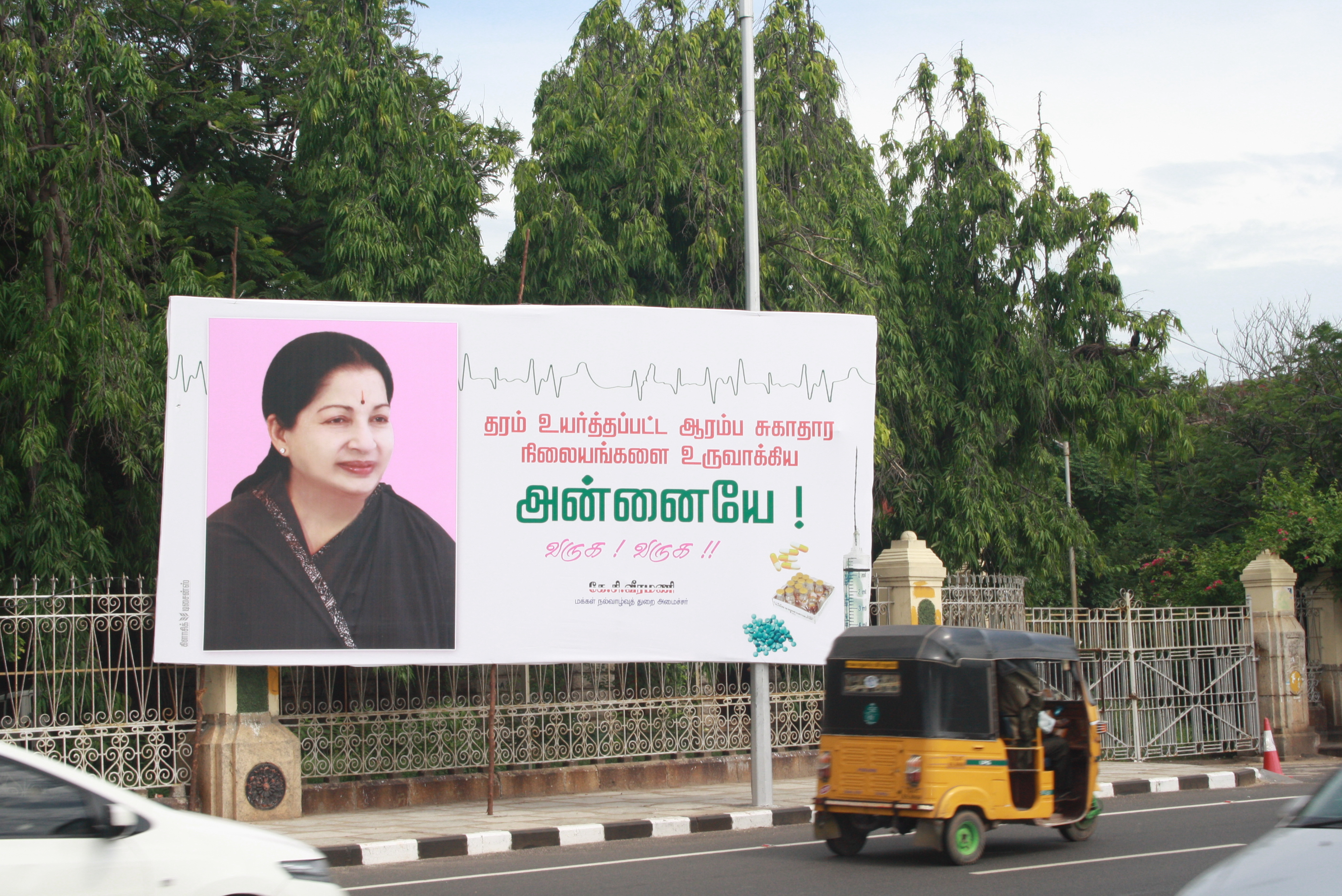 Flex board of Tamil Nadu Chief Minister J Jayalalitha in Chennai.